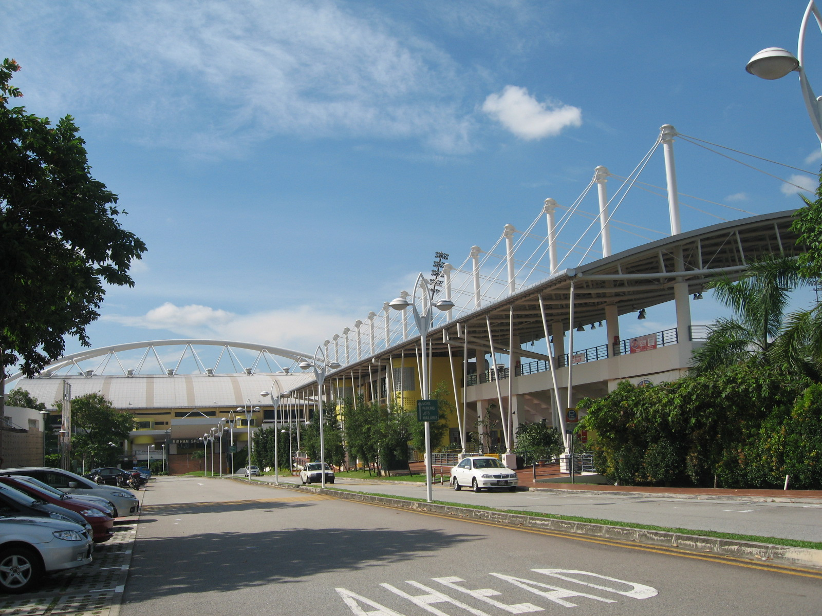 Bishan Stadium and Sports hall.